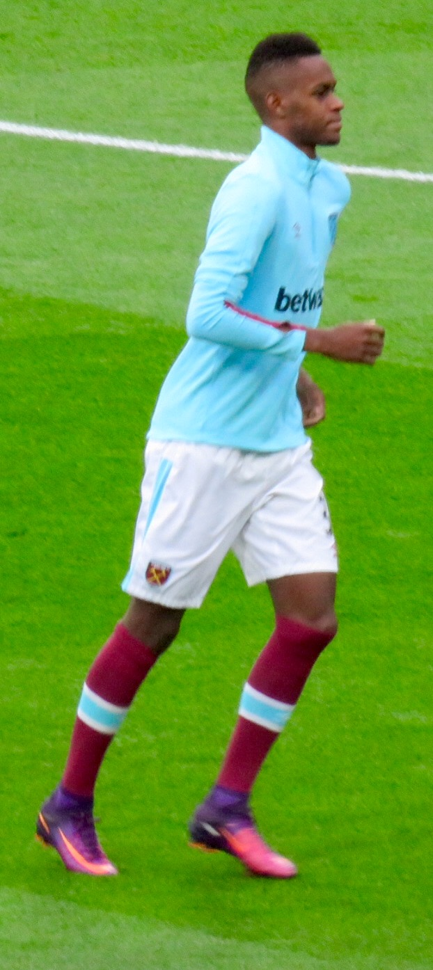 West Ham United player Edimilson Fernandes warming up before their Premiet League game against Stoke City at the London Stadium.